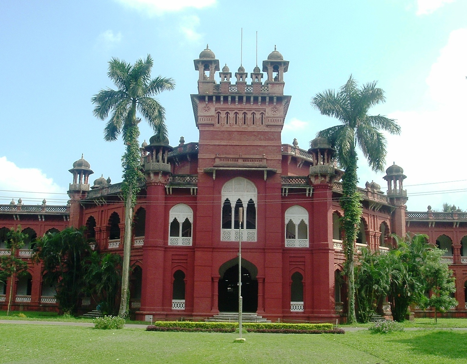 Curzon Hall, at Dhaka University Campus.